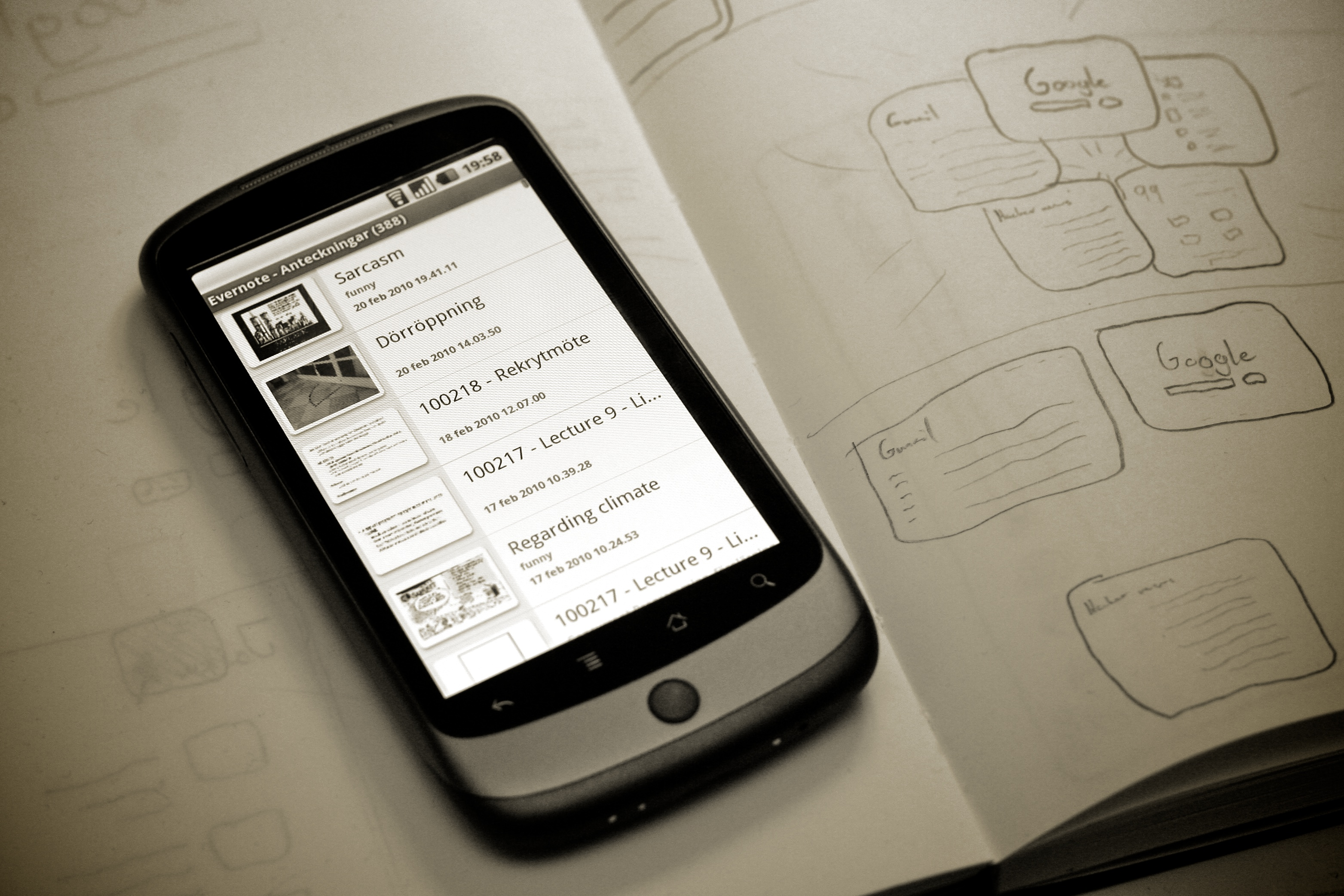 Evernote is a note-taking application that works on computers and mobile phones. In addition to typed notes, the software can save and annotate images and text from websites, and transcribe printed or handwritten text from a photograph.